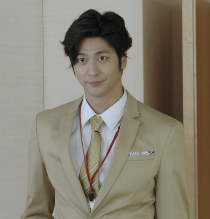 Portrait of Mokomichi Hayami